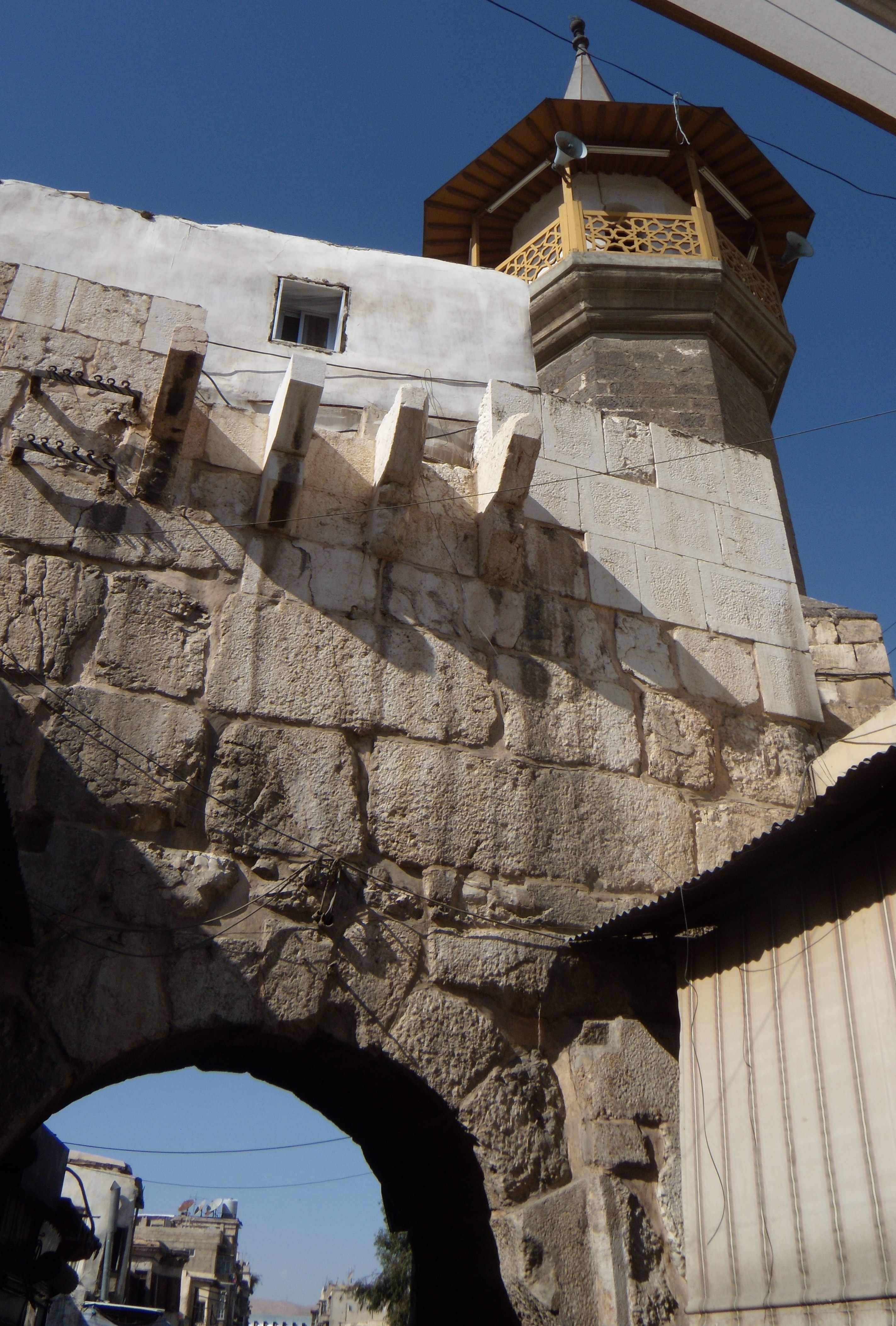 Bab al-Saghir, one of the seven ancient gates of Damascus.